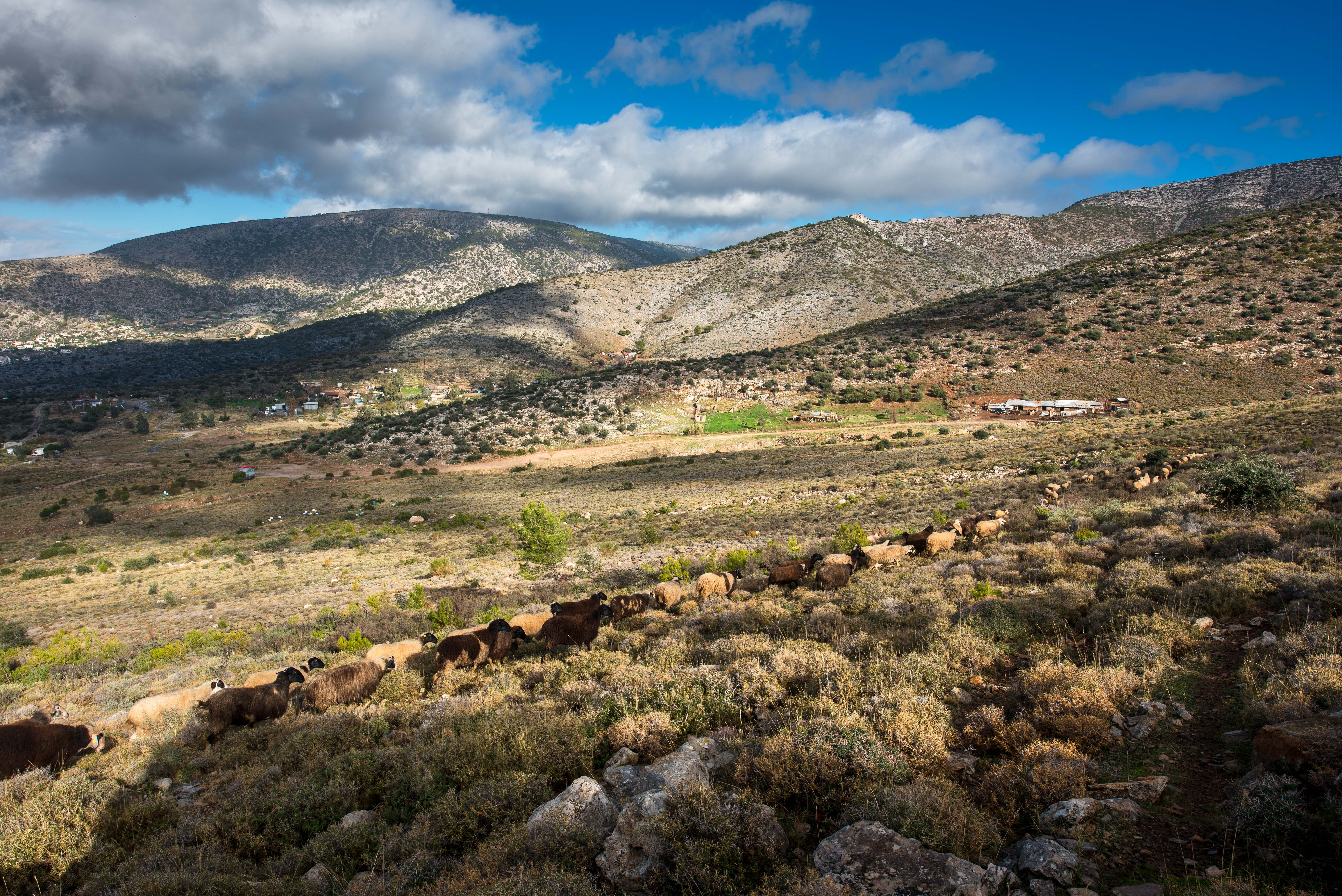 This is a photography of Natura 2000 protected area with ID GR3000006